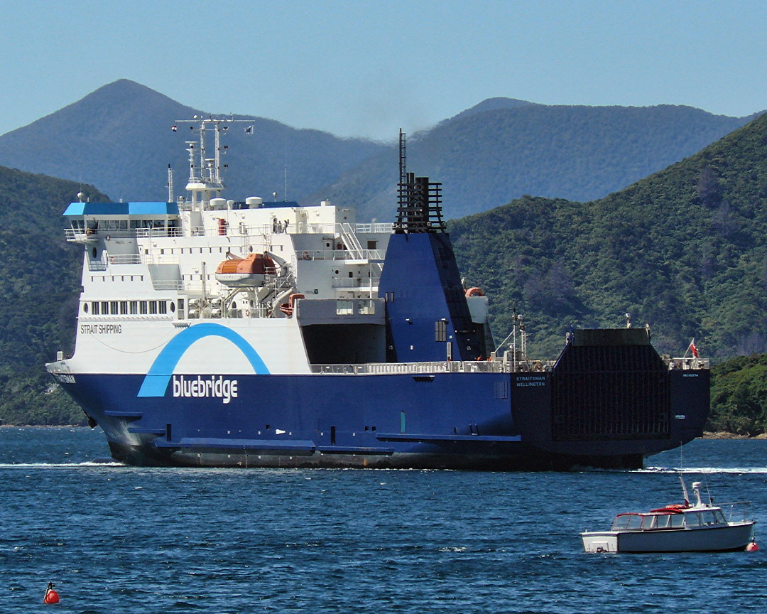 "Straitsman" in Picton Harbour